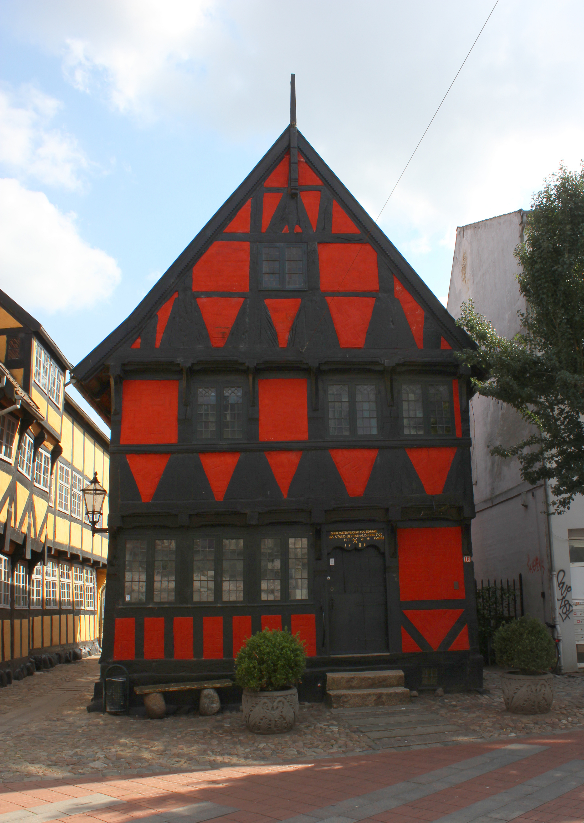 The old citizen's house, Helligkorsgade 18, 6000 Kolding, Denmark, Kolding's oldest building. It's probably built in 1589. The gable has a cannonball, built into the wall, as a memorial, because the house was not destroyed during a bombing in the First Schleswig War. The bombardment took place on 23 April 1849 during the Battle of Kolding. Since 1908 it has been a listed building.